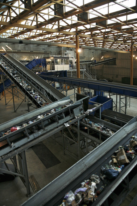 EveRé - centre de tri